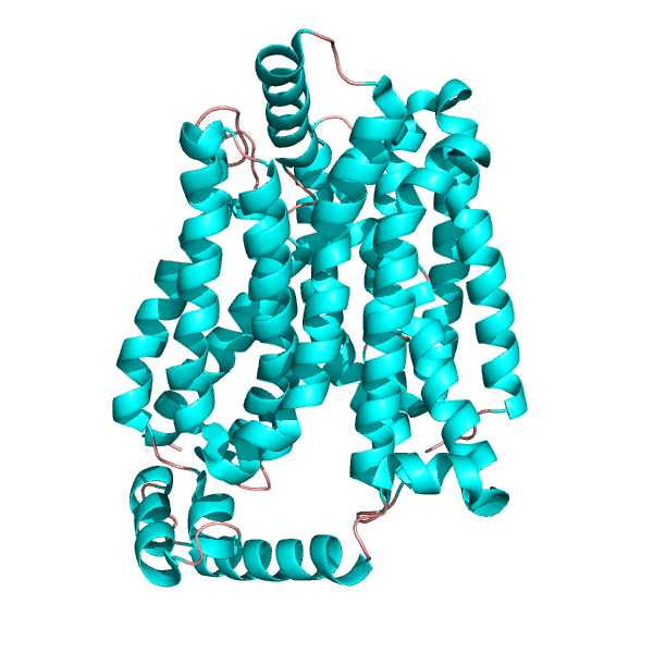 Crystal structure of the human glucose transporter GLUT1